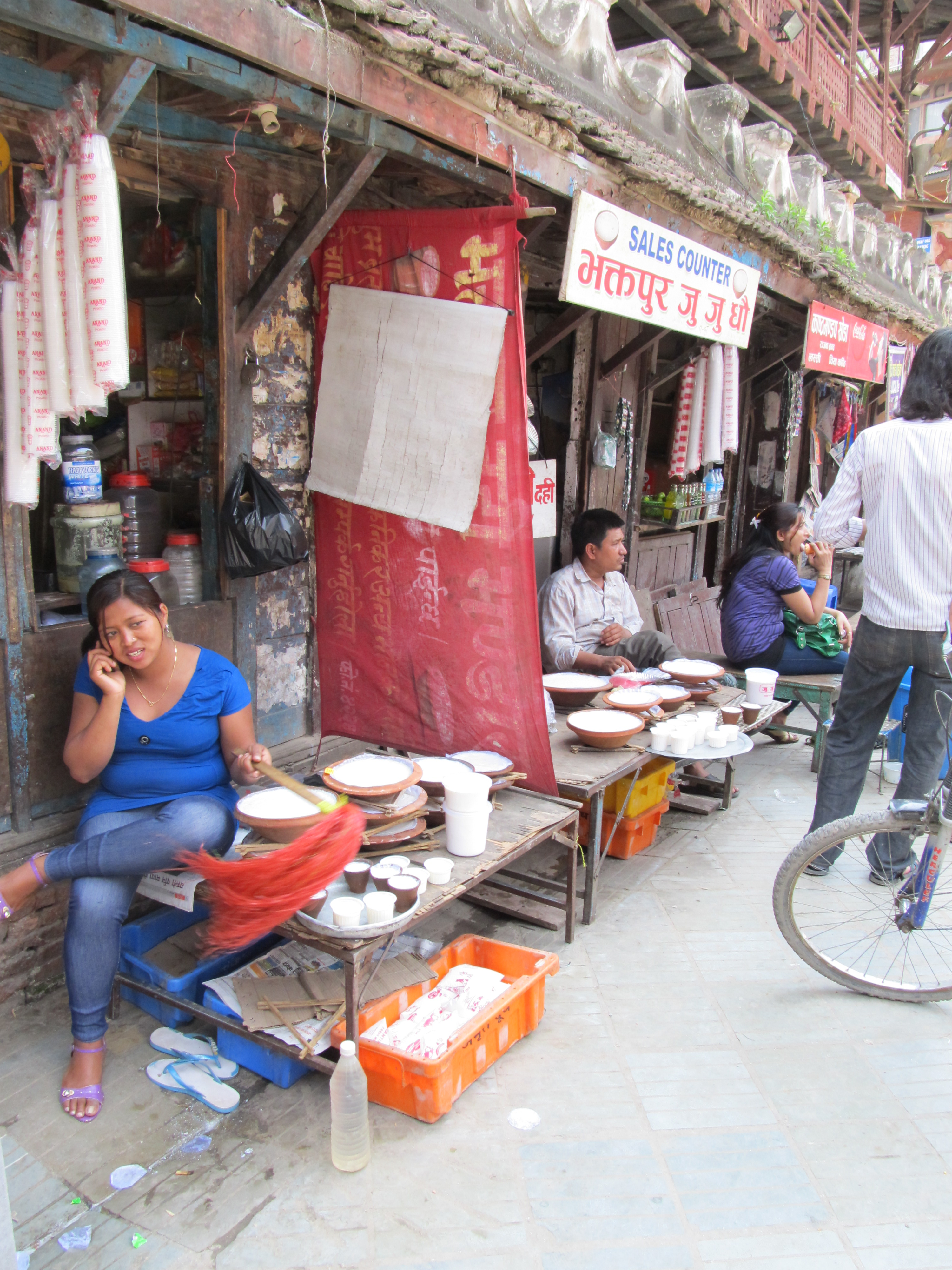 Selling Bhaktapur ju ju dhai (yoghurt) at Simha Sattal (building) - Kathmandu Darbar